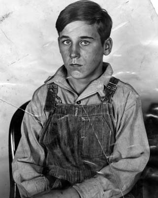 Sanford Clark, the victim of a serial killer Gordon Norton.